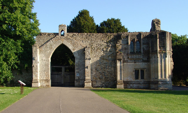 Abbey Gate House